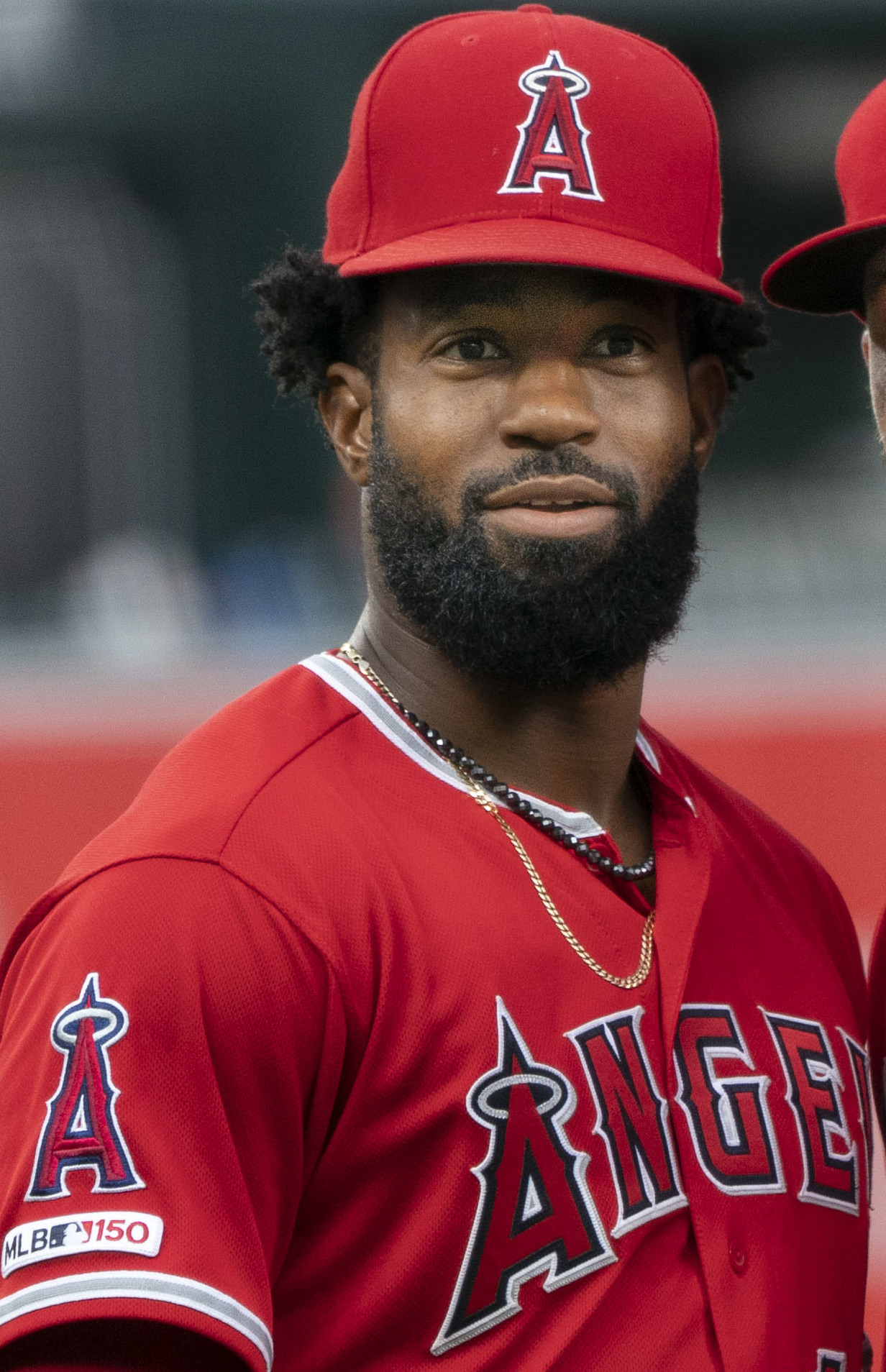 Angels at Orioles 5/10/19